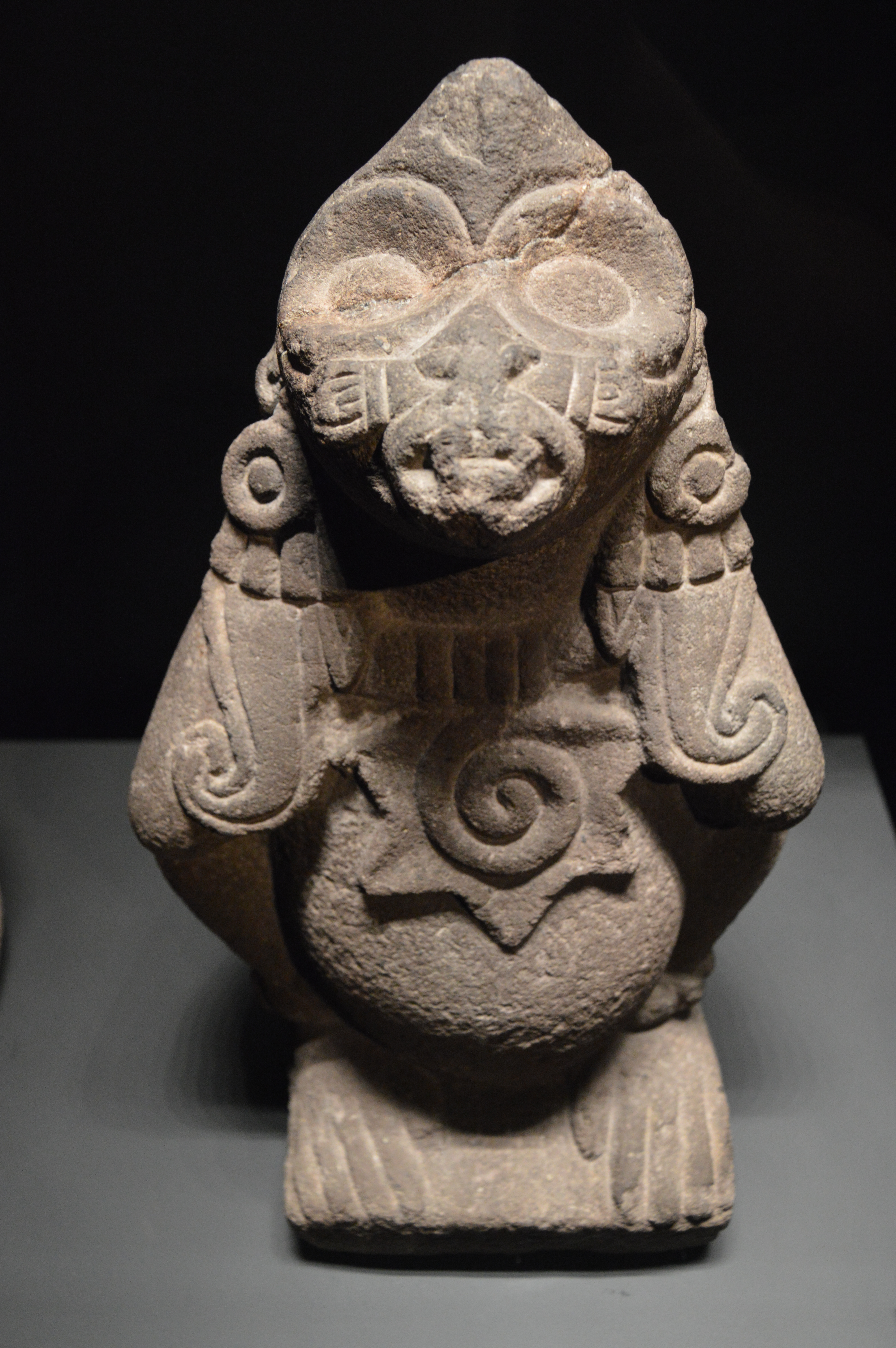 Ethecatl